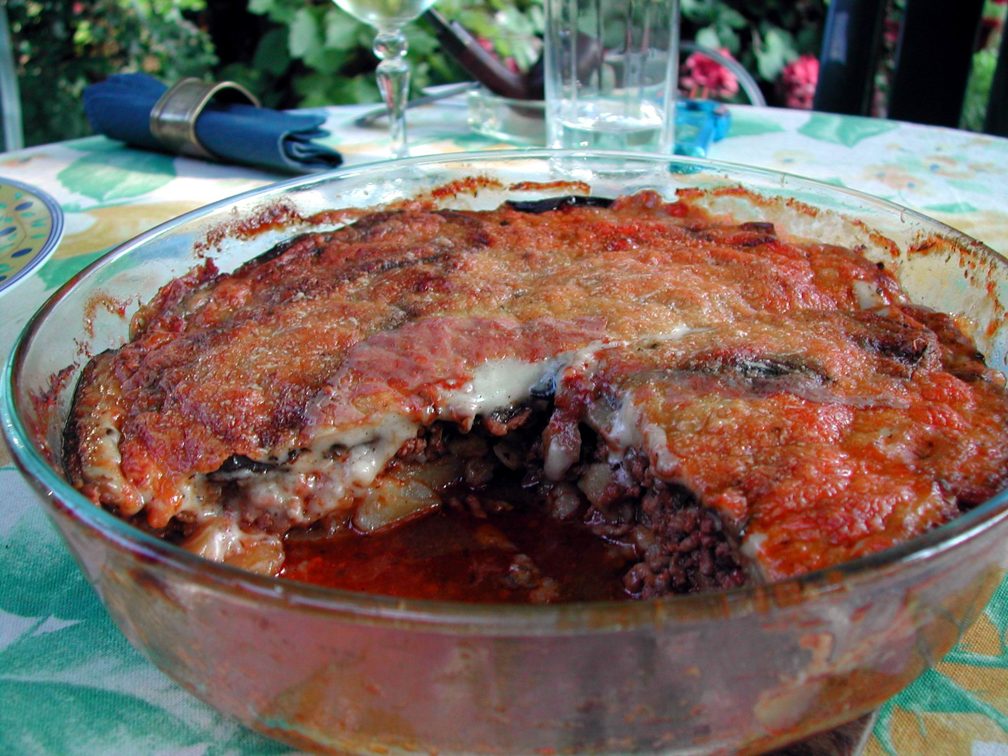 Moussaka with aubergine